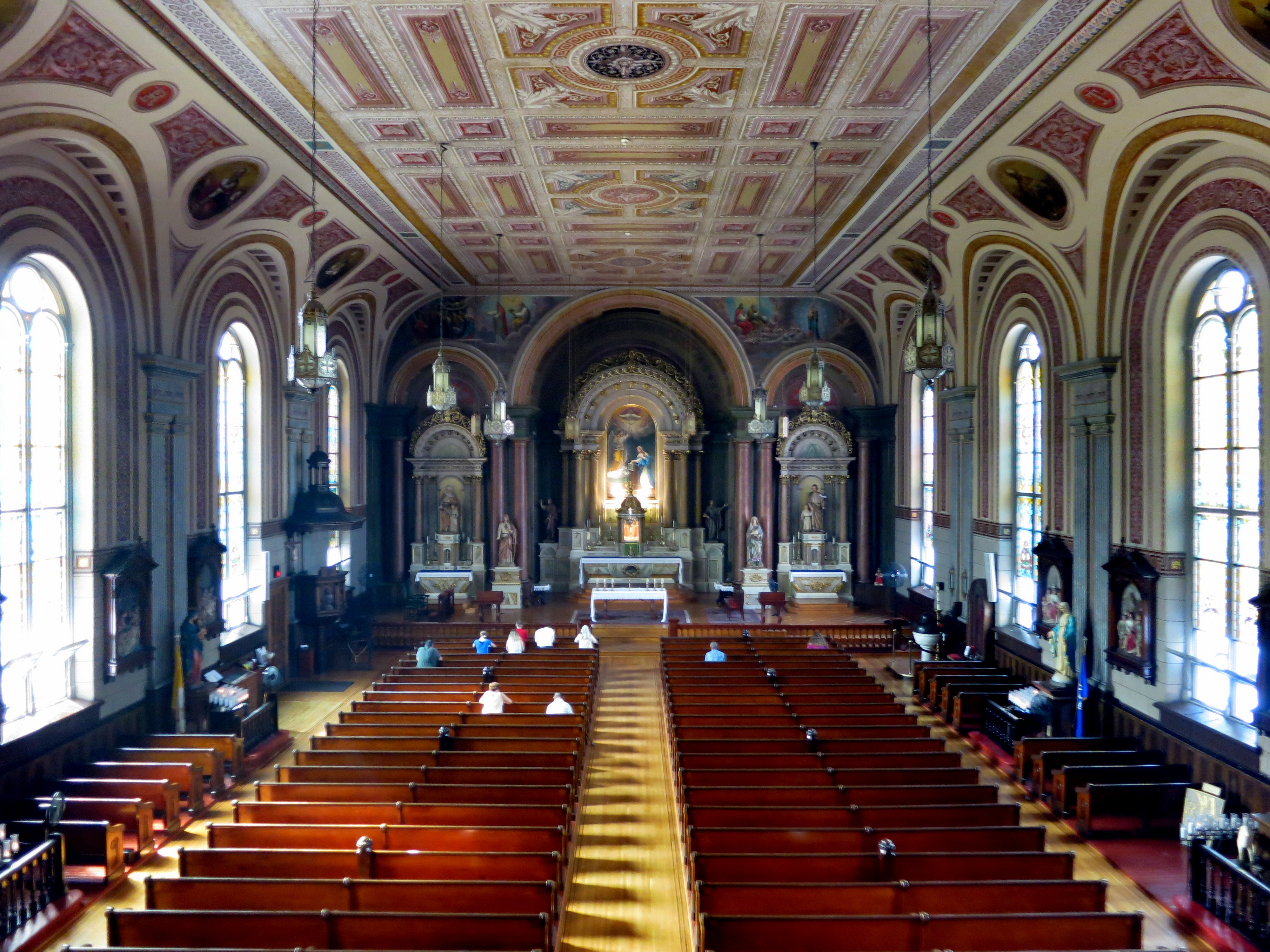 Old Saint Mary's Church (Cincinnati, Ohio) - nave, view from the organ loft